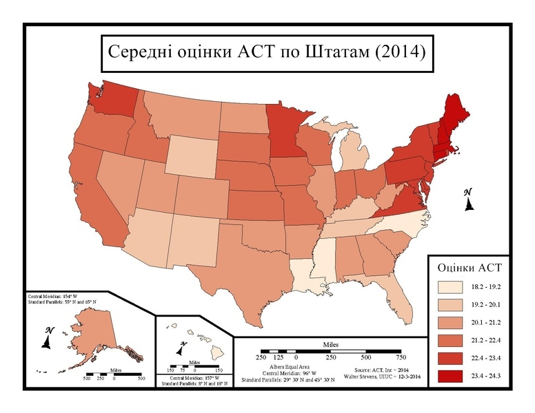 act,test